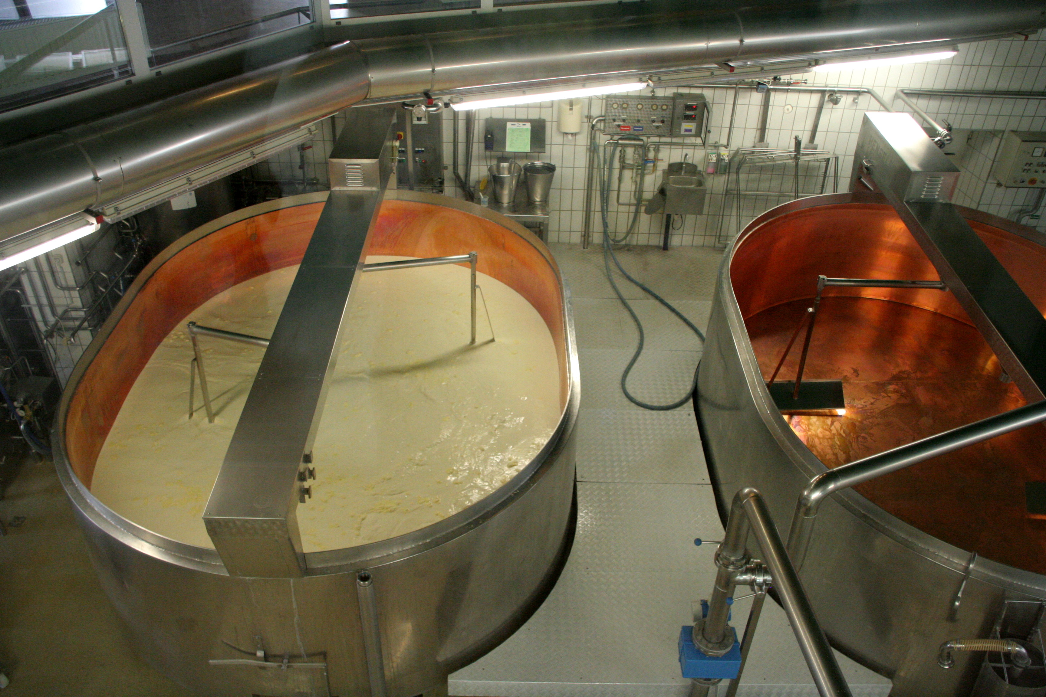 Production of cheese. 10.000 l milk in the left tank, the milk was mixed with rennet and is now broken for the production of Emmentaler.